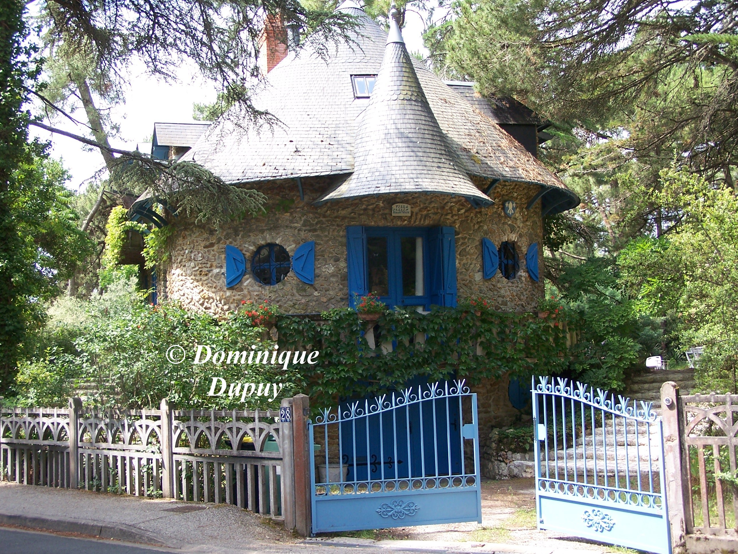 Russian Villa - Villa de Bonne Anse, located at 28 avenue de l'ocean - Les Mathes